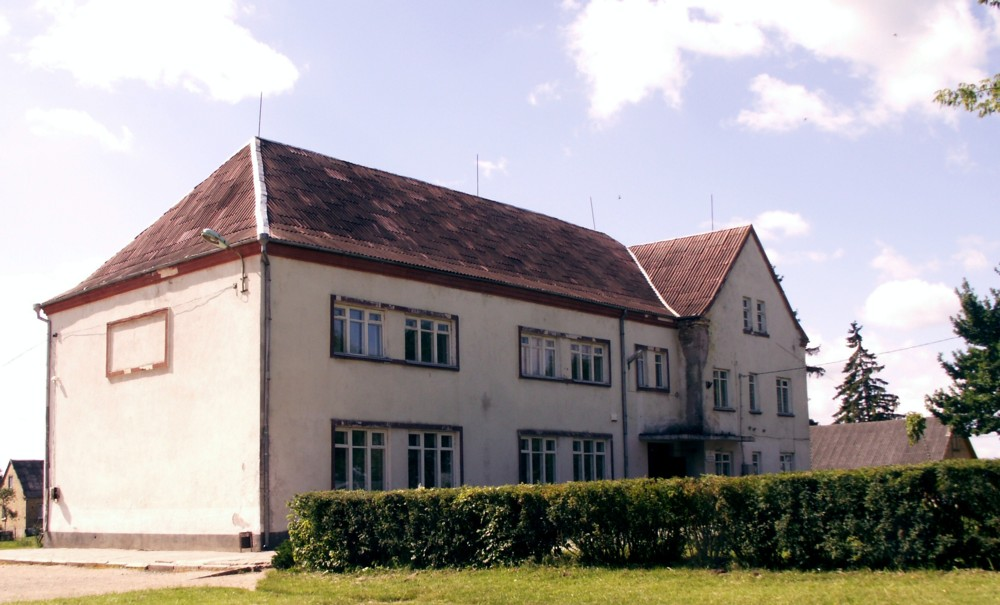 Aukštelkė, Šiauliai district, Lithuania